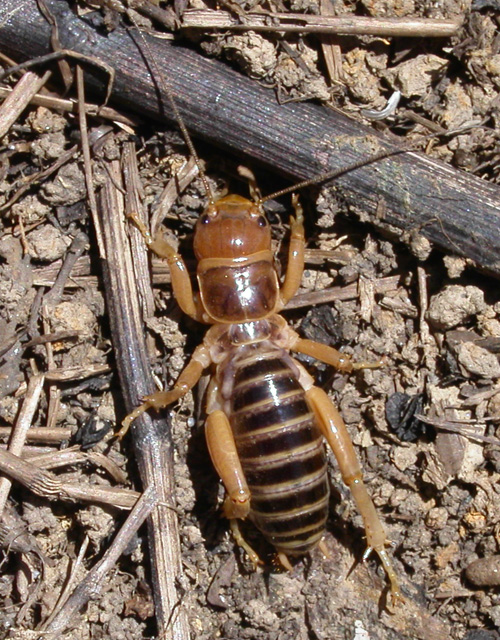 Taken at Consumnes River Preserve in California.